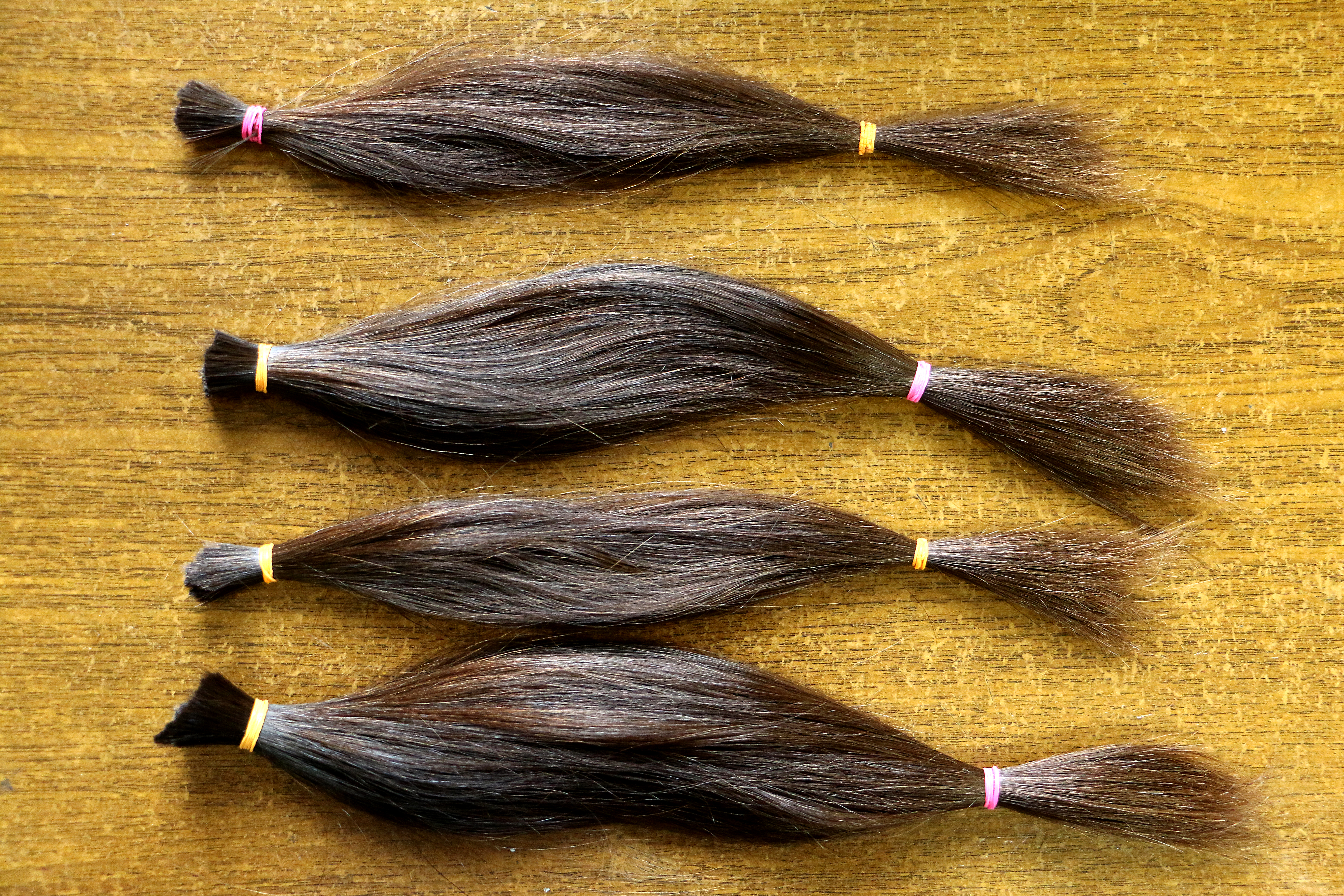 My youngest donated her hair to the Little Princess Trust today.